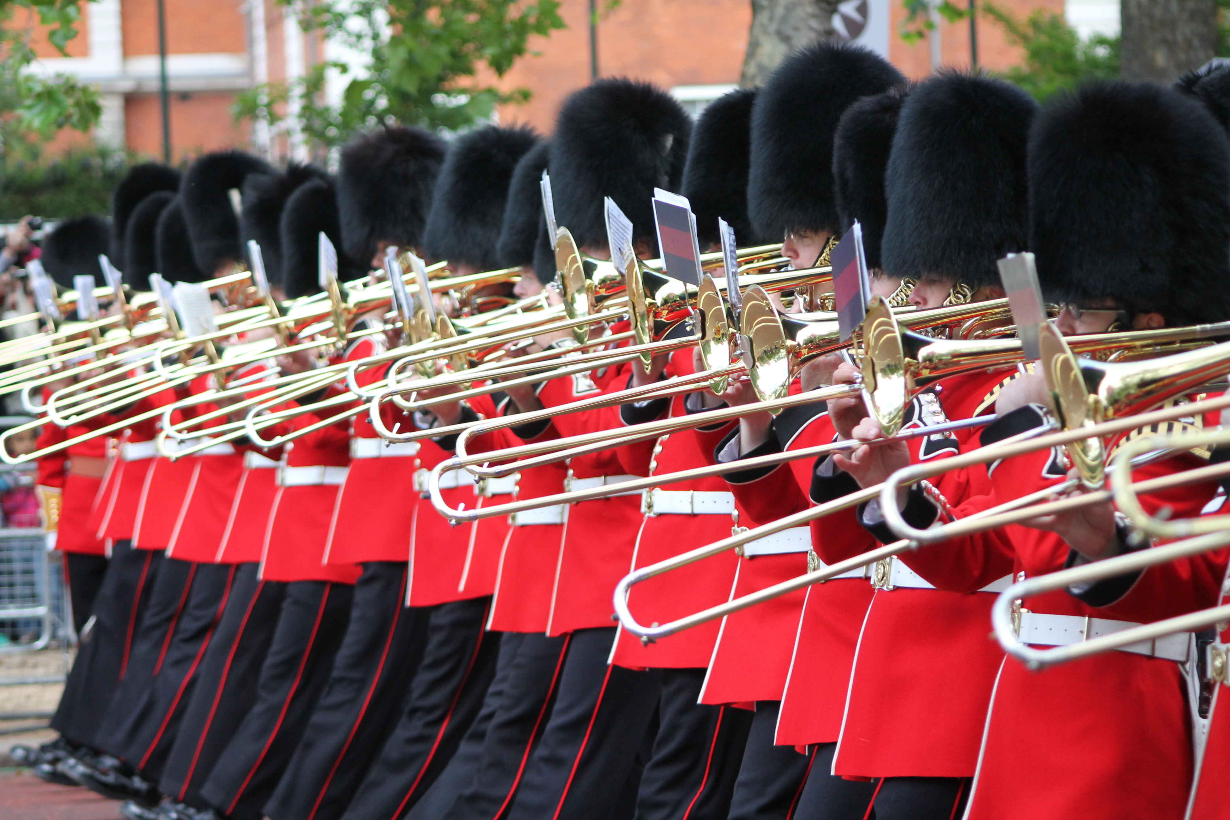 The massed bands of the Foot Guards, Trooping the Colour, June 2012